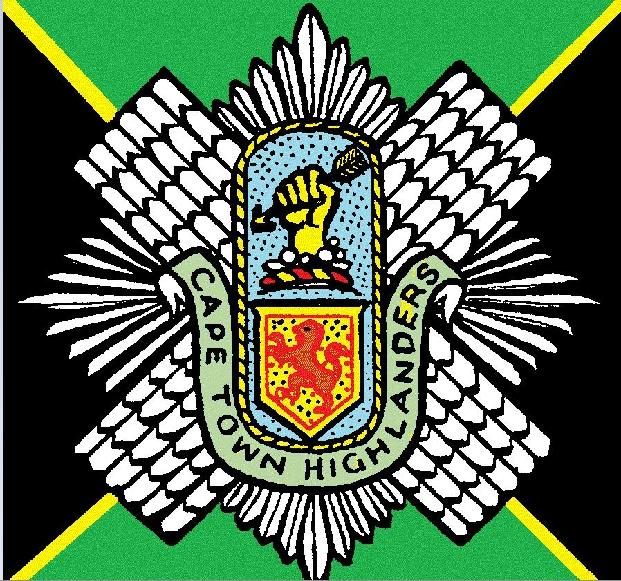 Cape Town Highlanders Regiment insignia